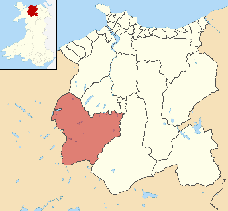 Location map of Betws-y-Coed electoral ward in Conwy County Borough, Wales, which covers the communities of Betwys-y-Coed, Dolwyddelan and Capel Curig.